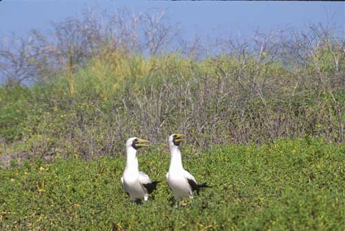 A pair of Masked Boobies (Sula dactylatra) calling on Malden Island, Line Islands, Kiribati.